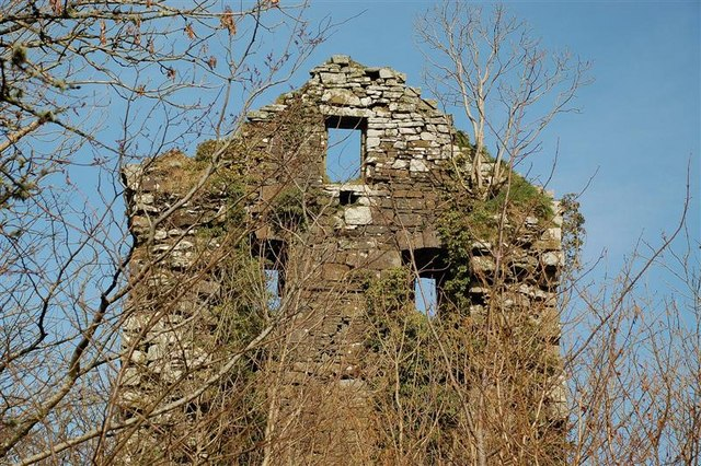 Top Of Kilkerran Castle The windows of the third floor bedrooms and the attic room that was in the battlements of the Fergusson family's early 16th century castle. (Source: "The Castles Of South-West Scotland", by Mike Salter).